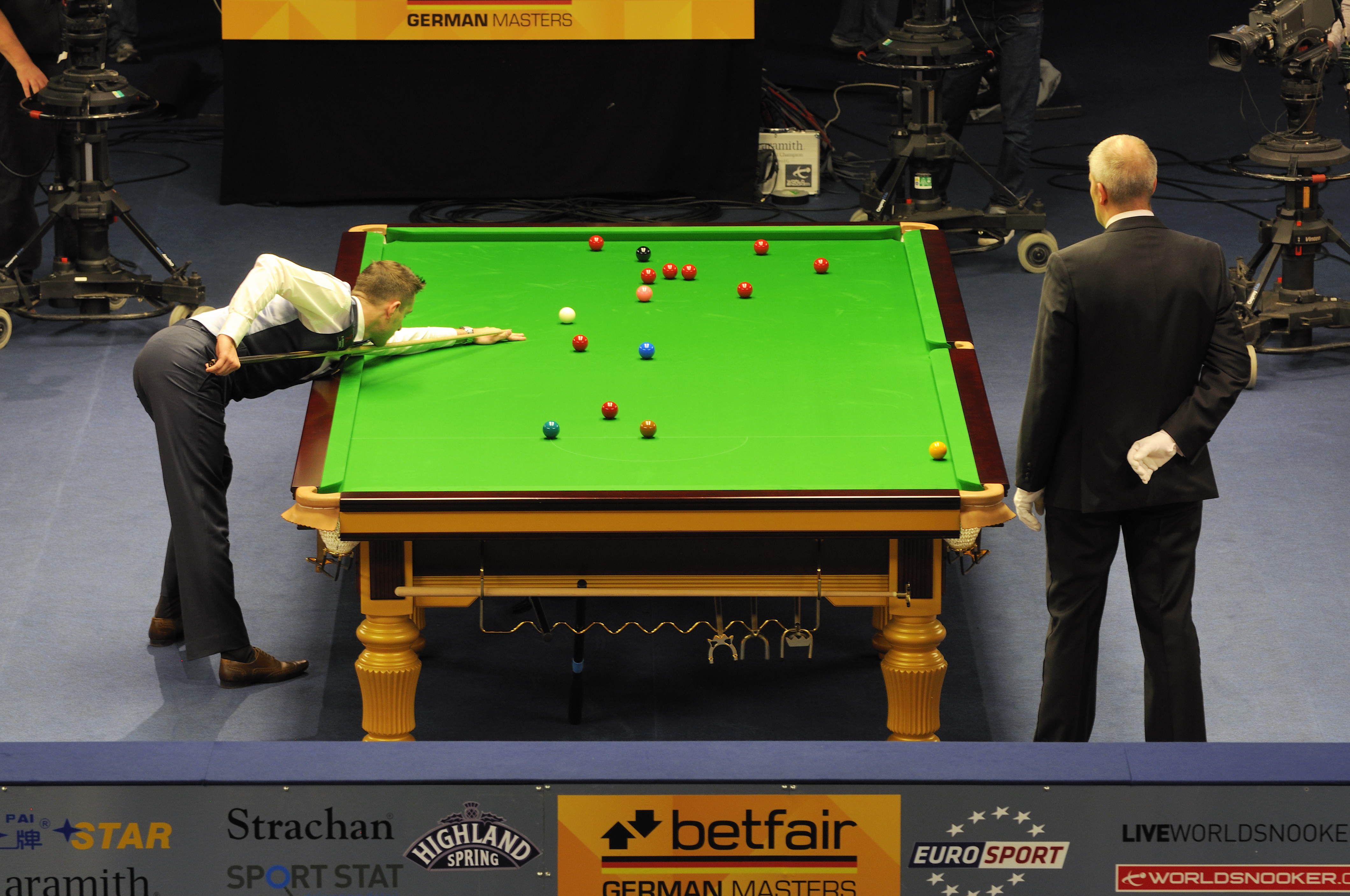 Picture taken in Berlin during the Snooker German Masters in 2013. Jan Verhaas, Mark Selby.